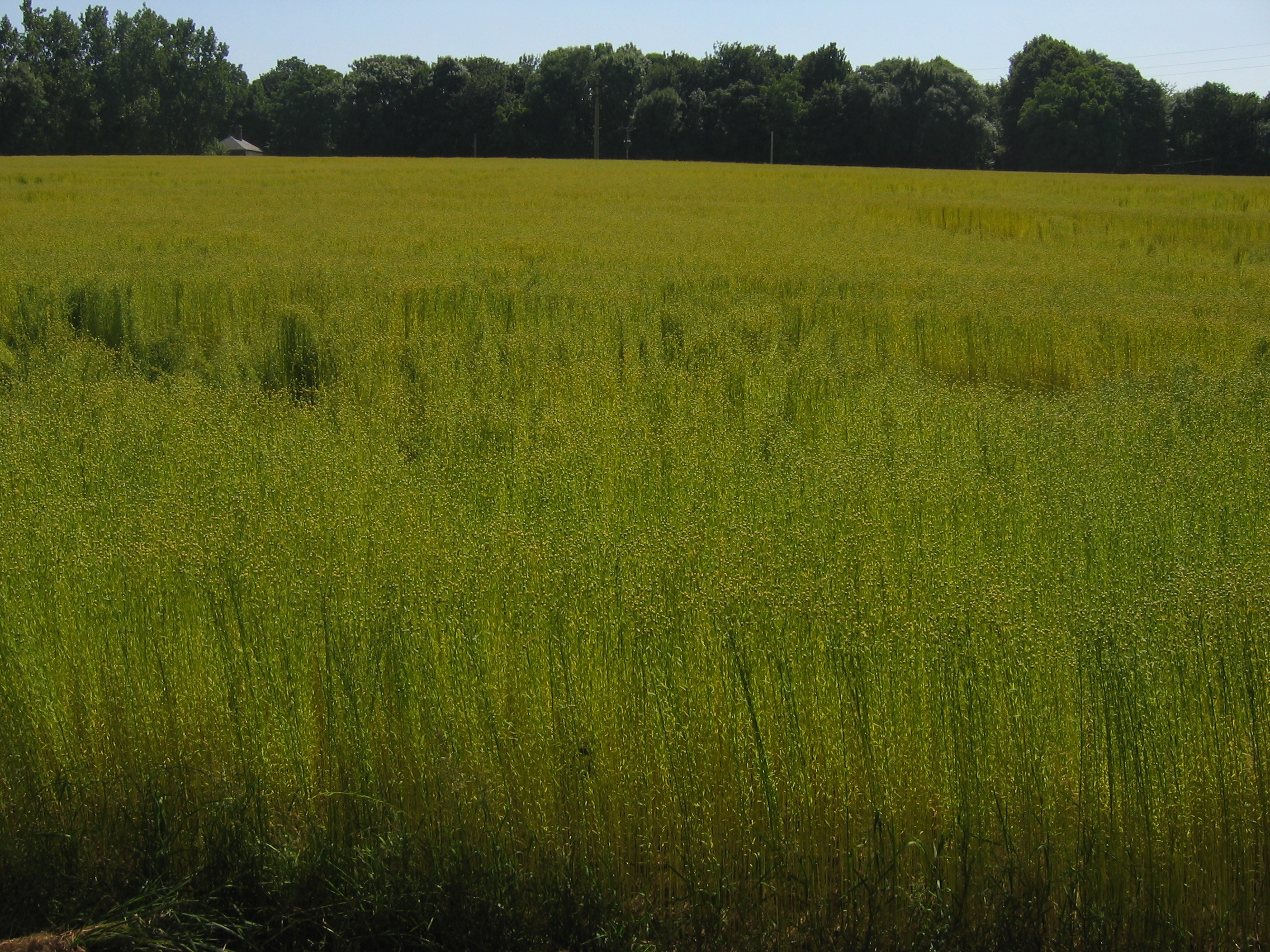 Field of flax in Normandy, France